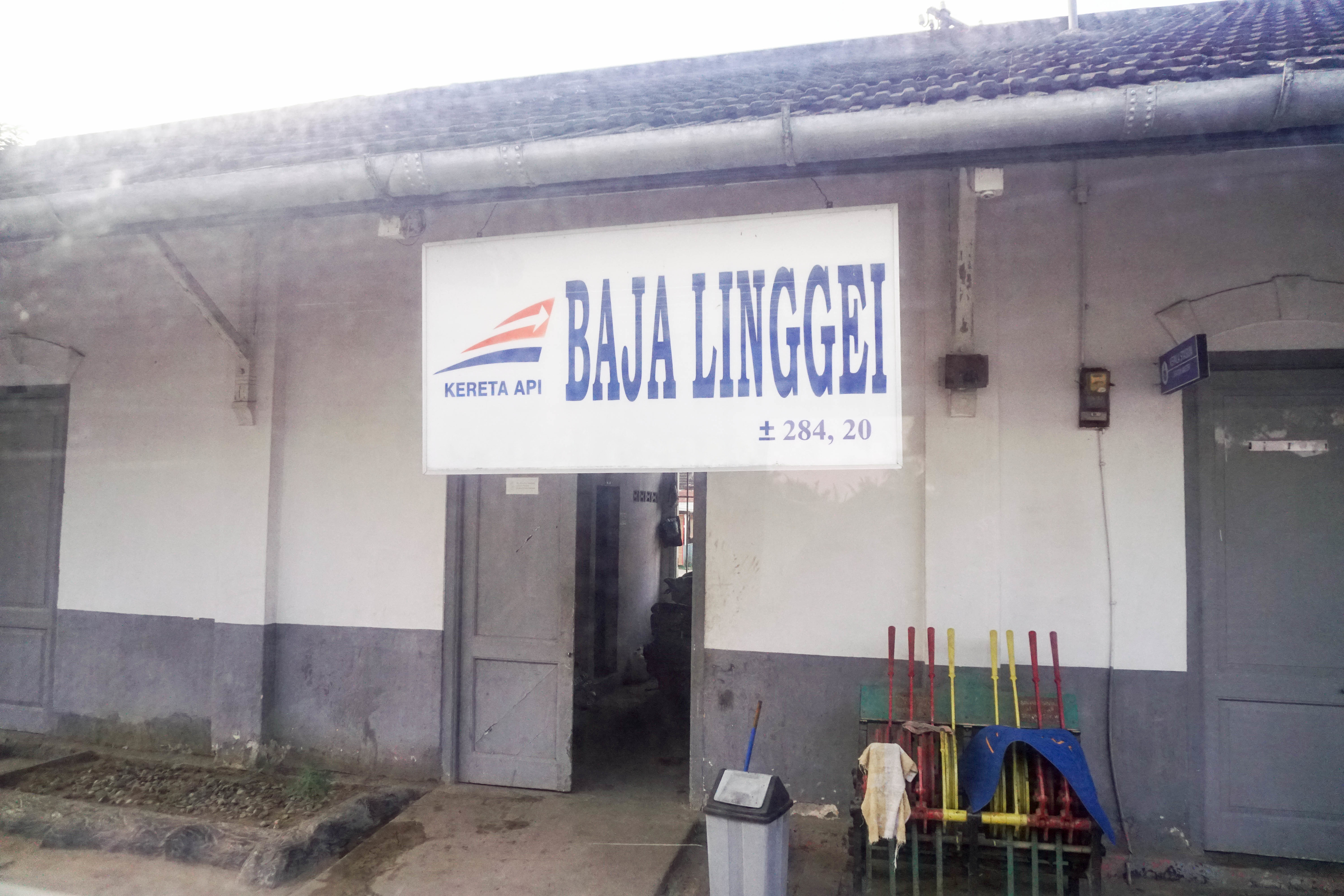 Baja Linggei Station from Siantar Ekspres train